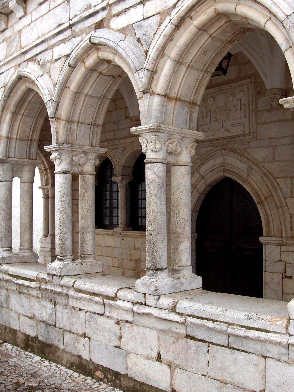 Arched entrance of the gothic Paço da Audiência (Audience Room) in Estremoz Castle, Portugal